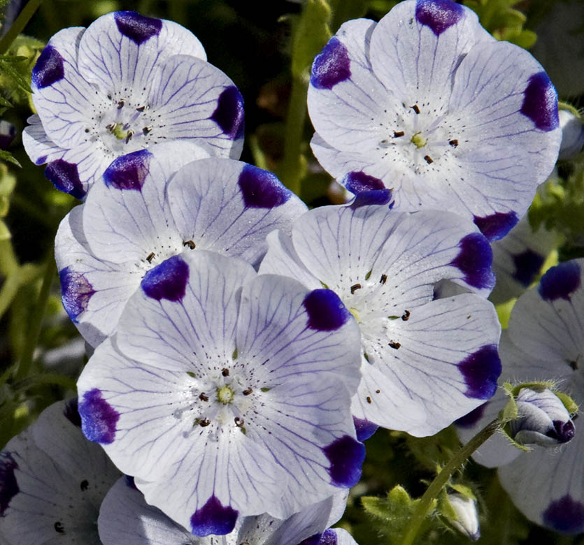 Wildflower Five Spot (Nemophila maculata), Mendocino Botanic Garden, Ft Bragg, CA.